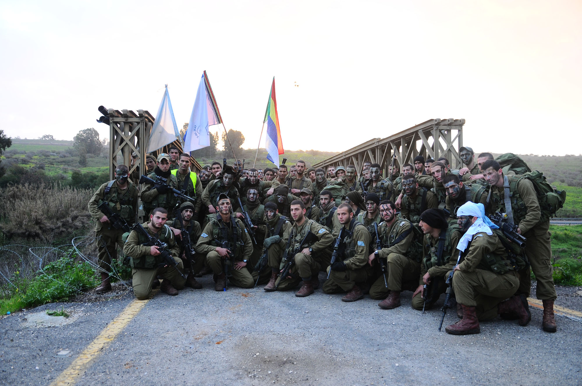 The "Herev" (Sword) Battalion, comprised of Druze, Jewish and Christian soldiers, are an elite unit specially trained in the Northern Command. The Israel Defense Forces Facebook The Israel Defense Forces blog The Israel Defense Forces website Follow us on Twitter